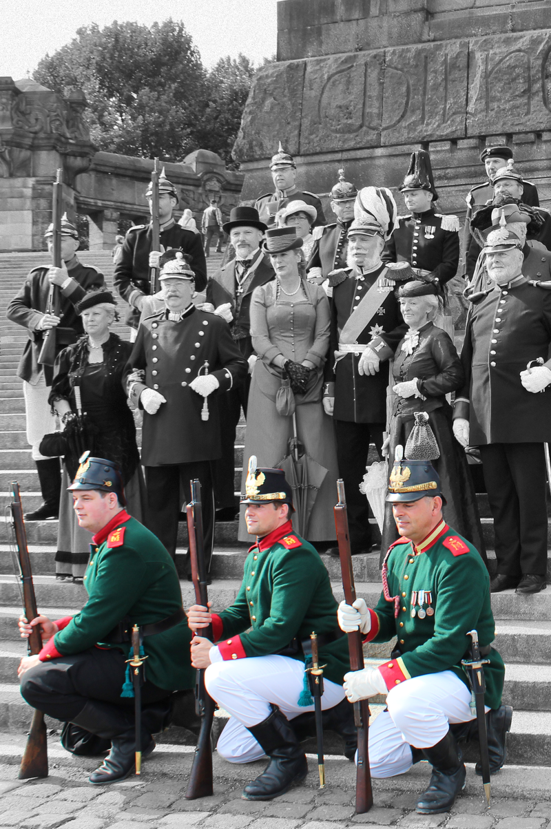 Prussia Day at the German corner of the 2011 Federal Horticultural Show (Bundesgartenschau, aka "BUGA")) in Koblenz, Rhineland-Palatinate, Germany.